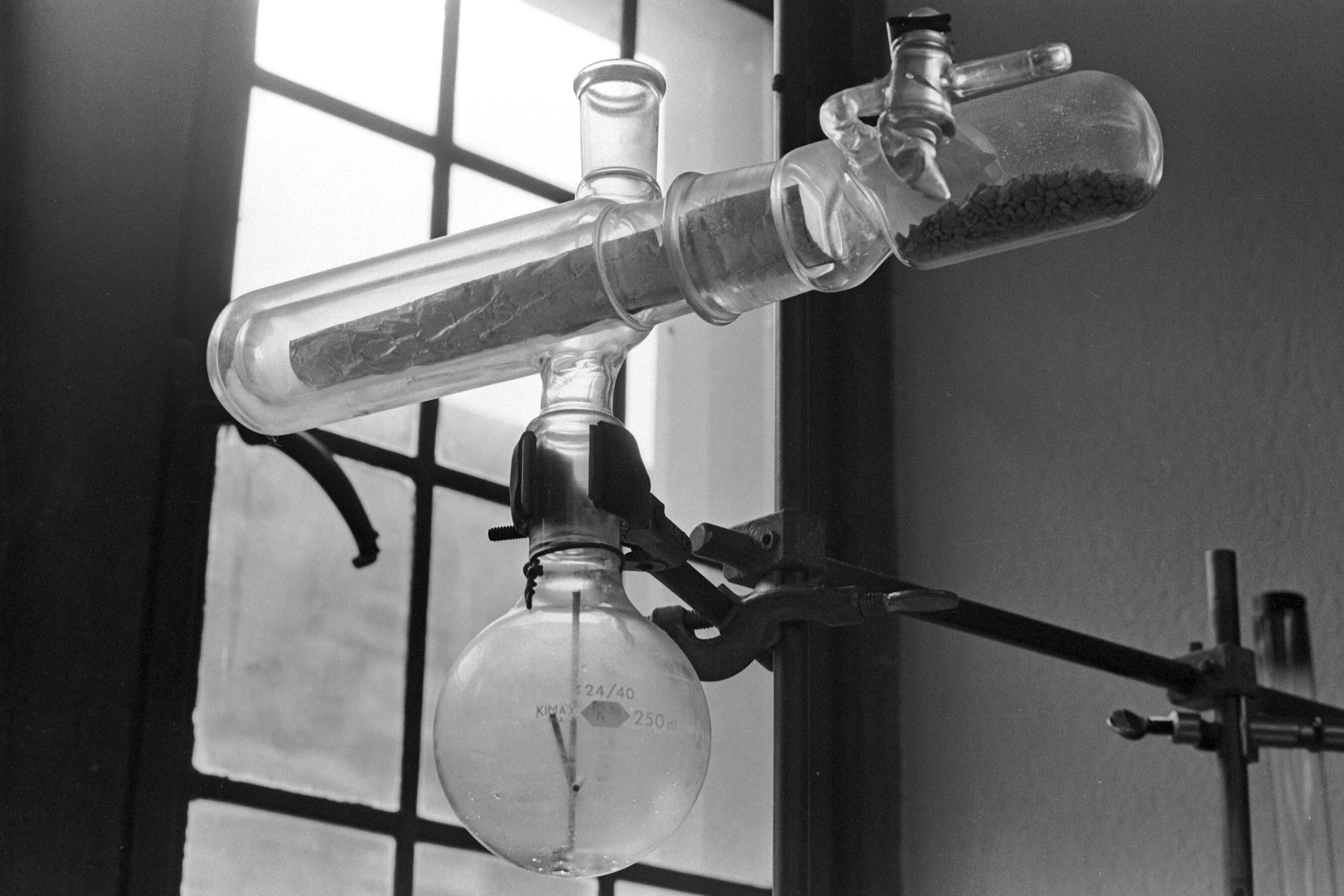 The apparatus shown is an "Abderhalden drying pistol." It is an excellent piece of glassware! - By modern standards, lab apparatus in the Chemistry Building was rather Frankensteinish.